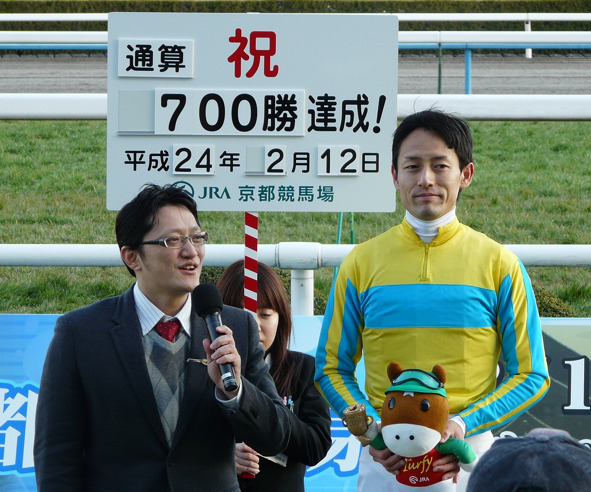 Shinichiro-Akiyama20120212